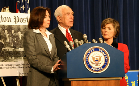 Senator Lautenberg along with Senators Cantwell (D-WA) and Boxer (D-CA) call on Congress to investigate whether top oil executives made false statements during a Senate hearing on November 9, 2005.